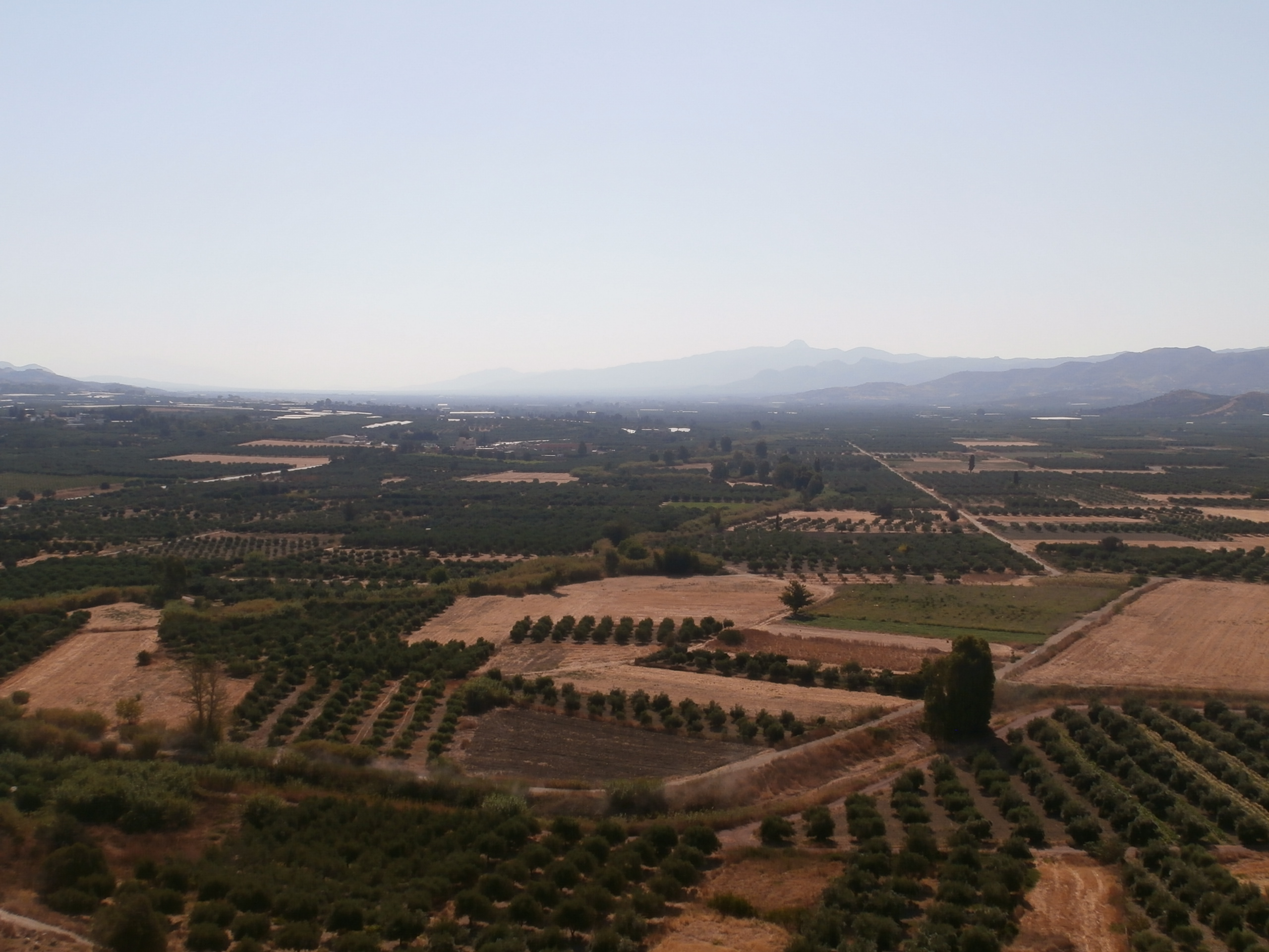 Messara as seen from Phaistos